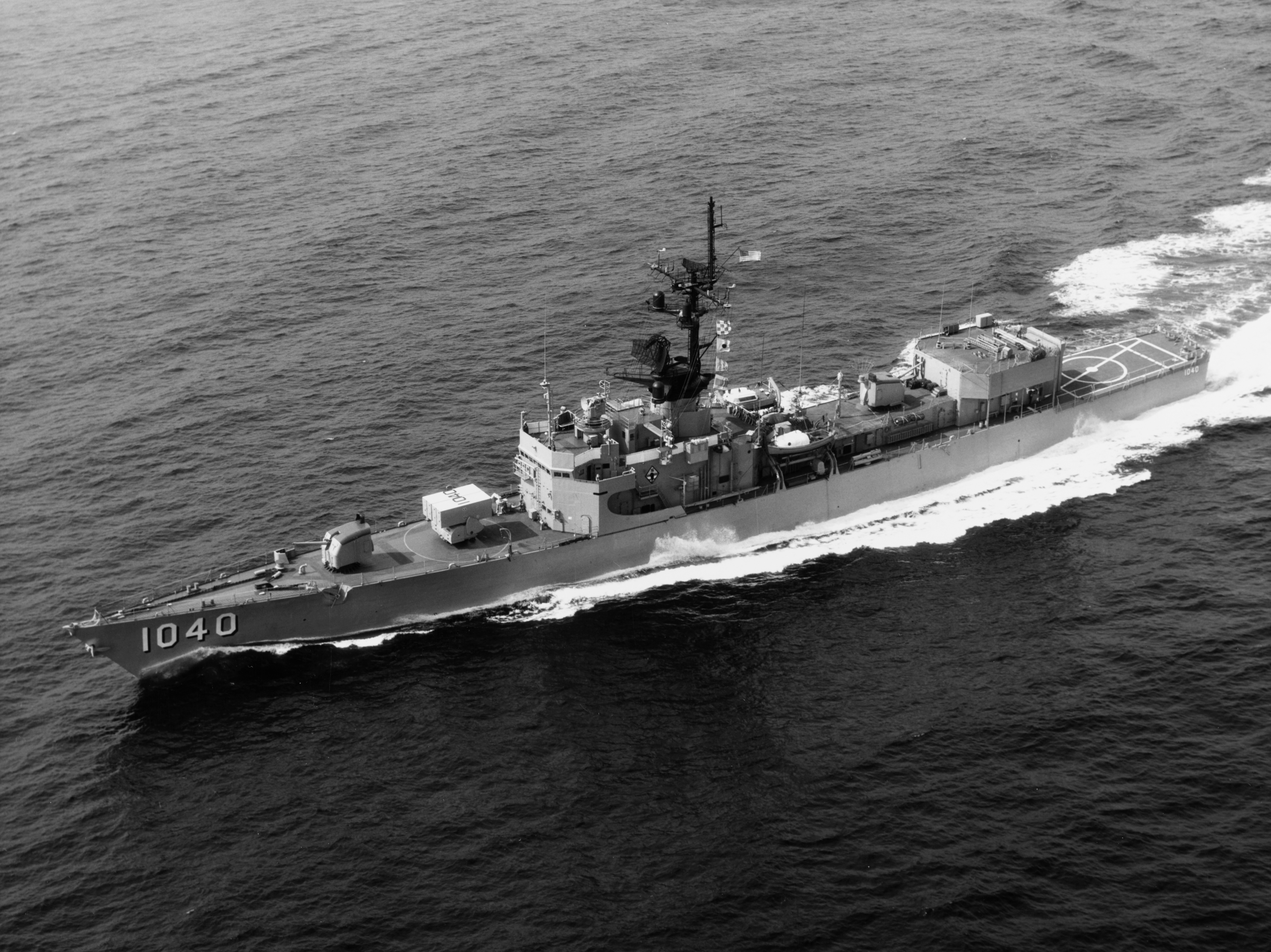 The U.S. Navy ocean escort USS Garcia (DE-1040) underway at sea off Newport, Rhode Island (USA), on 18 August 1972.